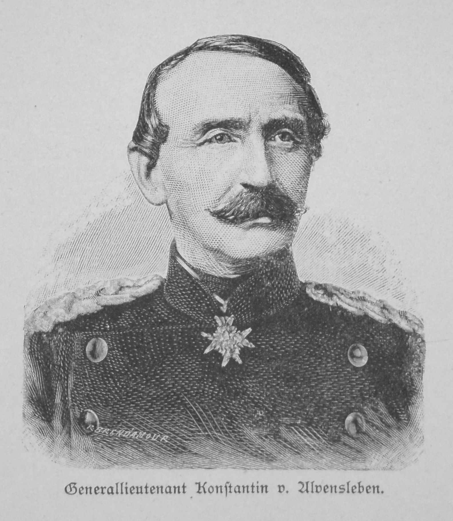 major general Konstantin von Alvensleben